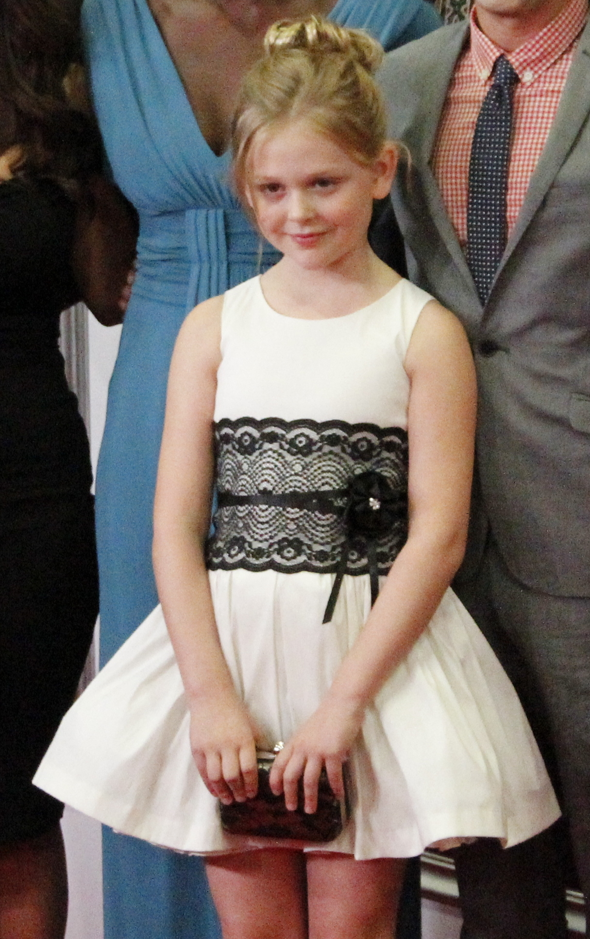 Emily Alyn Lind at the Won't Back Down NYC Premiere, Ziegfeld Theater in 2012.